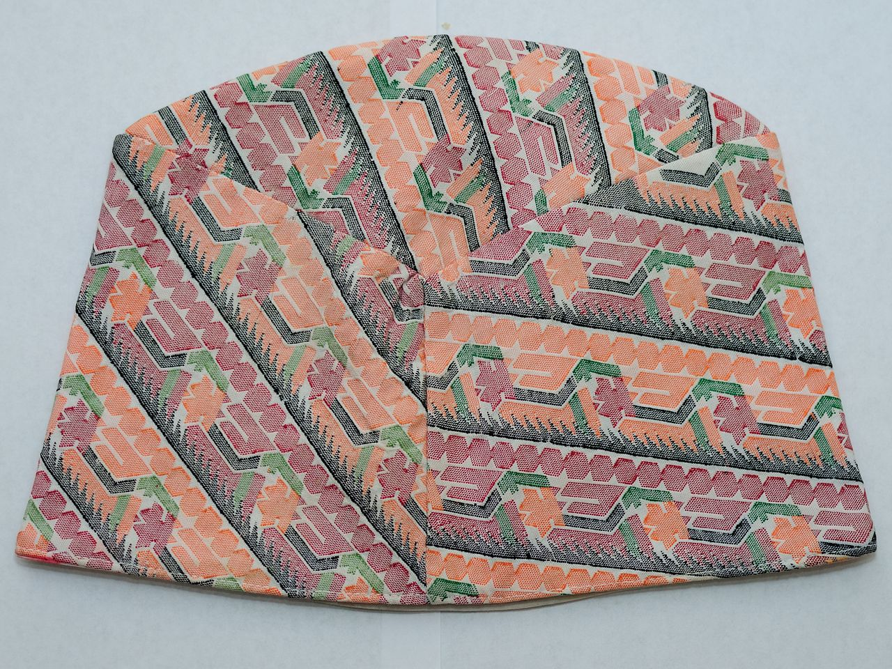 You can Follow me in Twitter.